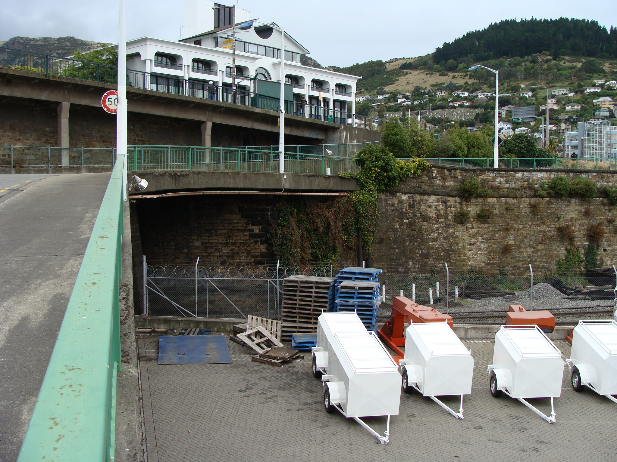 Lyttelton portal of the Lyttelton rail tunnel.